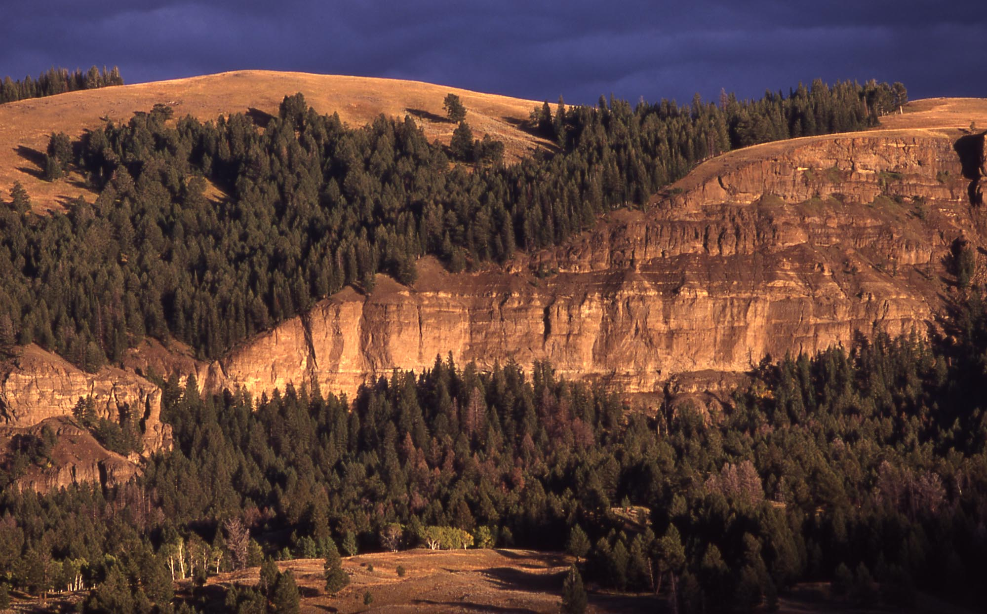 South Ridge of Mount Norris, Yellowstone National Park, 1997